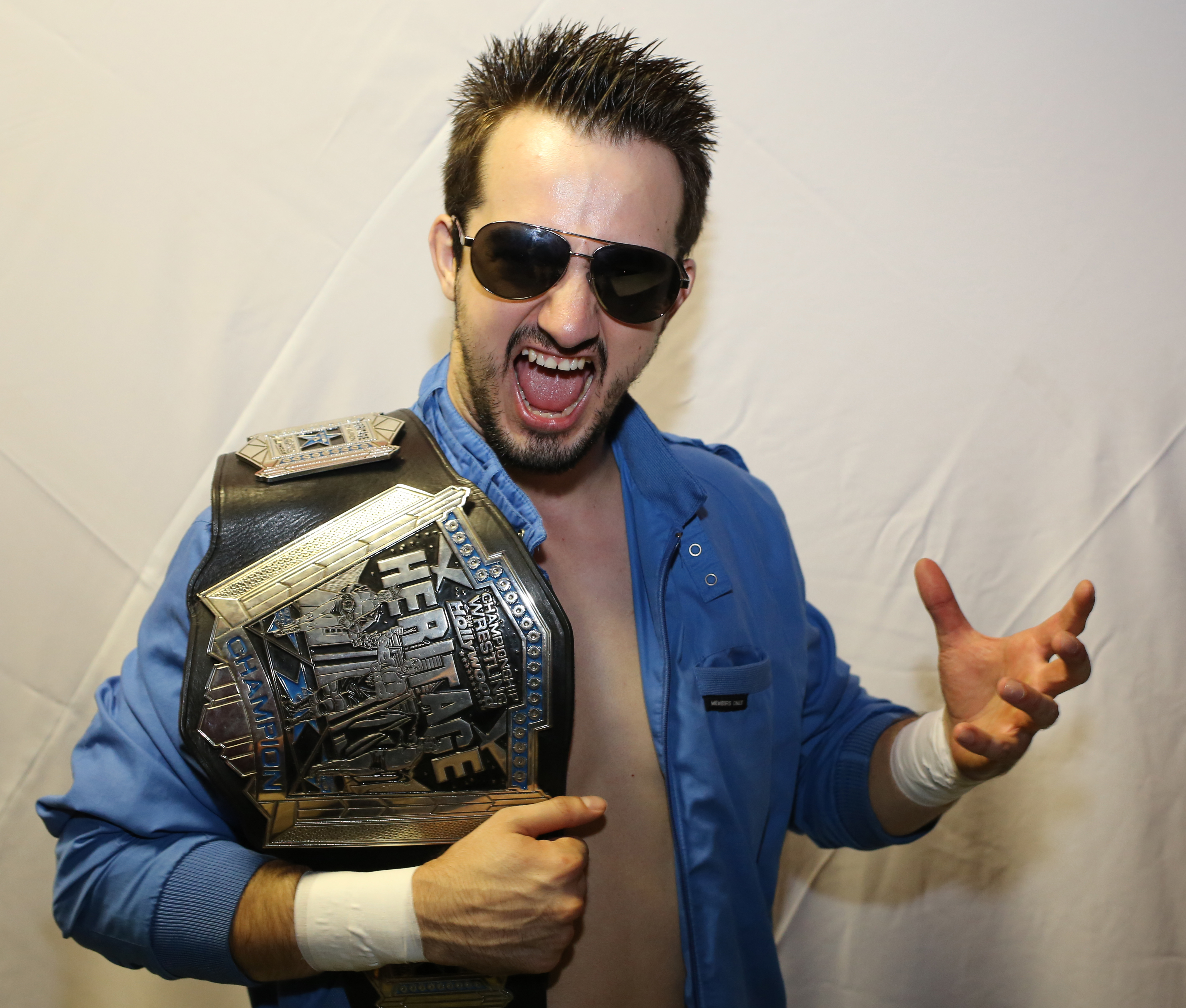 "Pretty" Peter Avalon is the current CWFH Heritage Champion